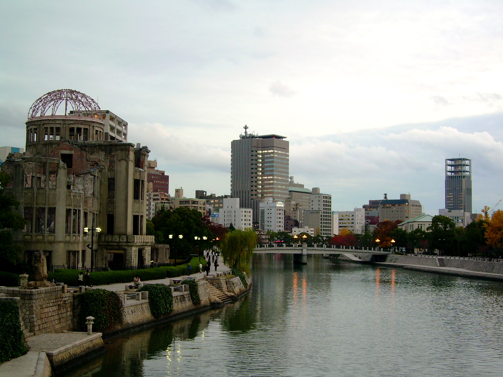 Atomic Bomb Dome and modern buildings